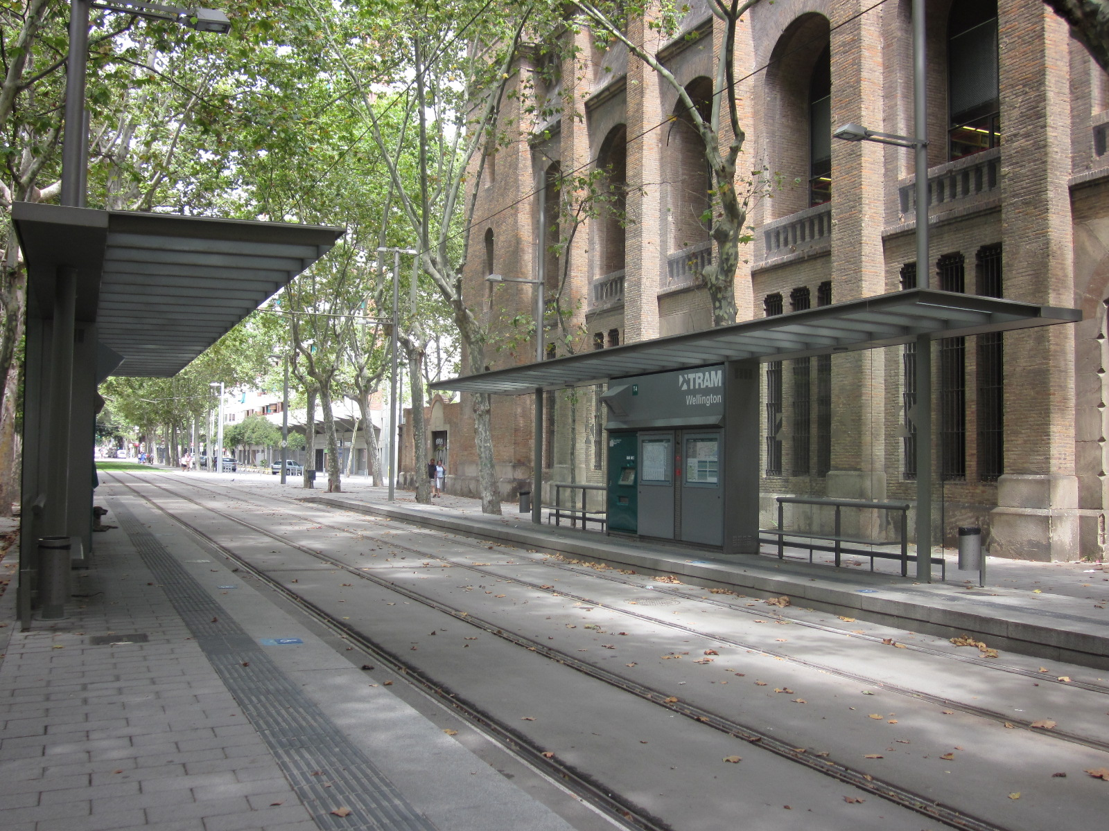 Wellington Trambesòs stop (Barcelona). L4.